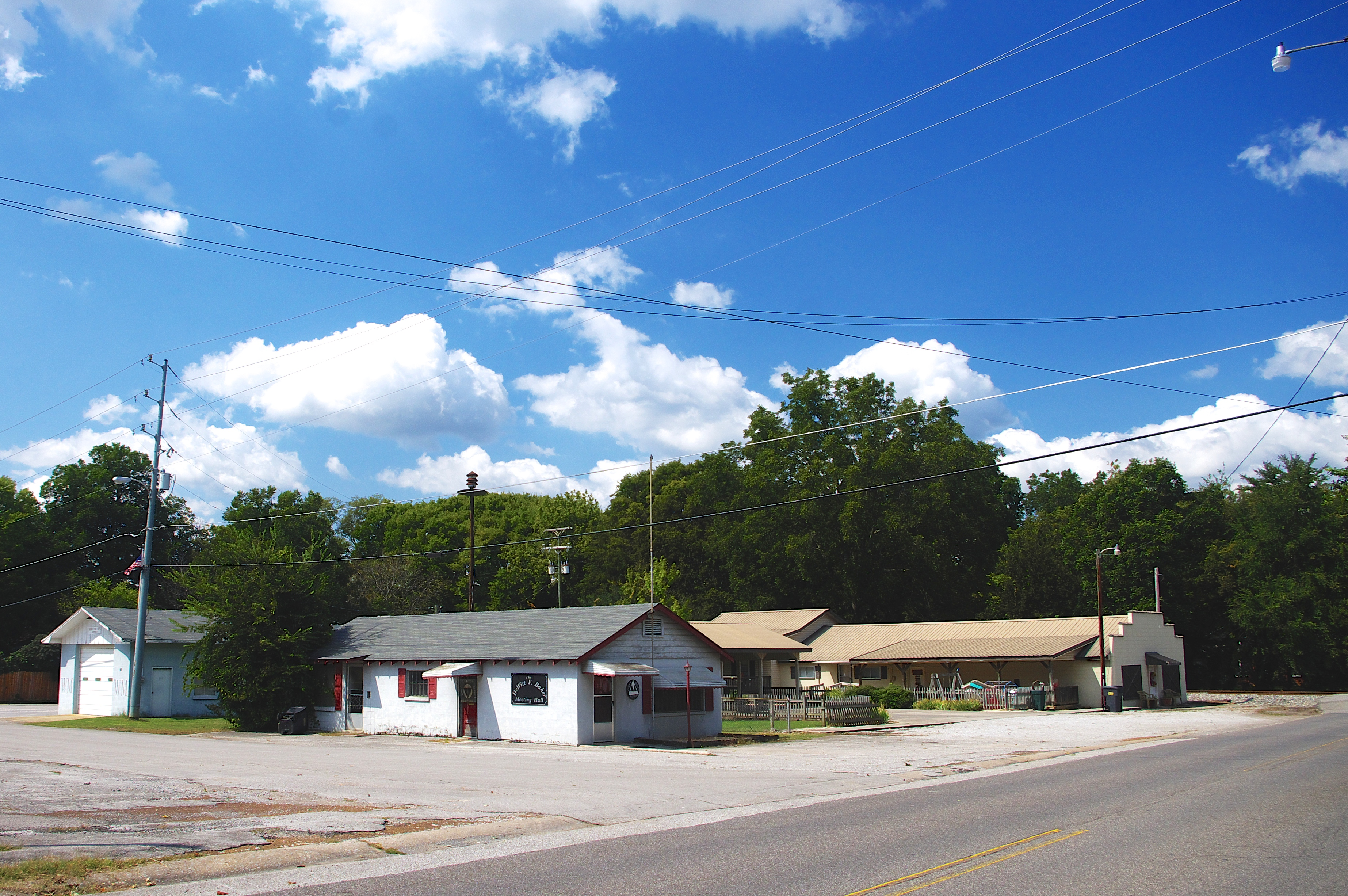 Businesses along Seneca Drive in Trinity, Alabama, United States.